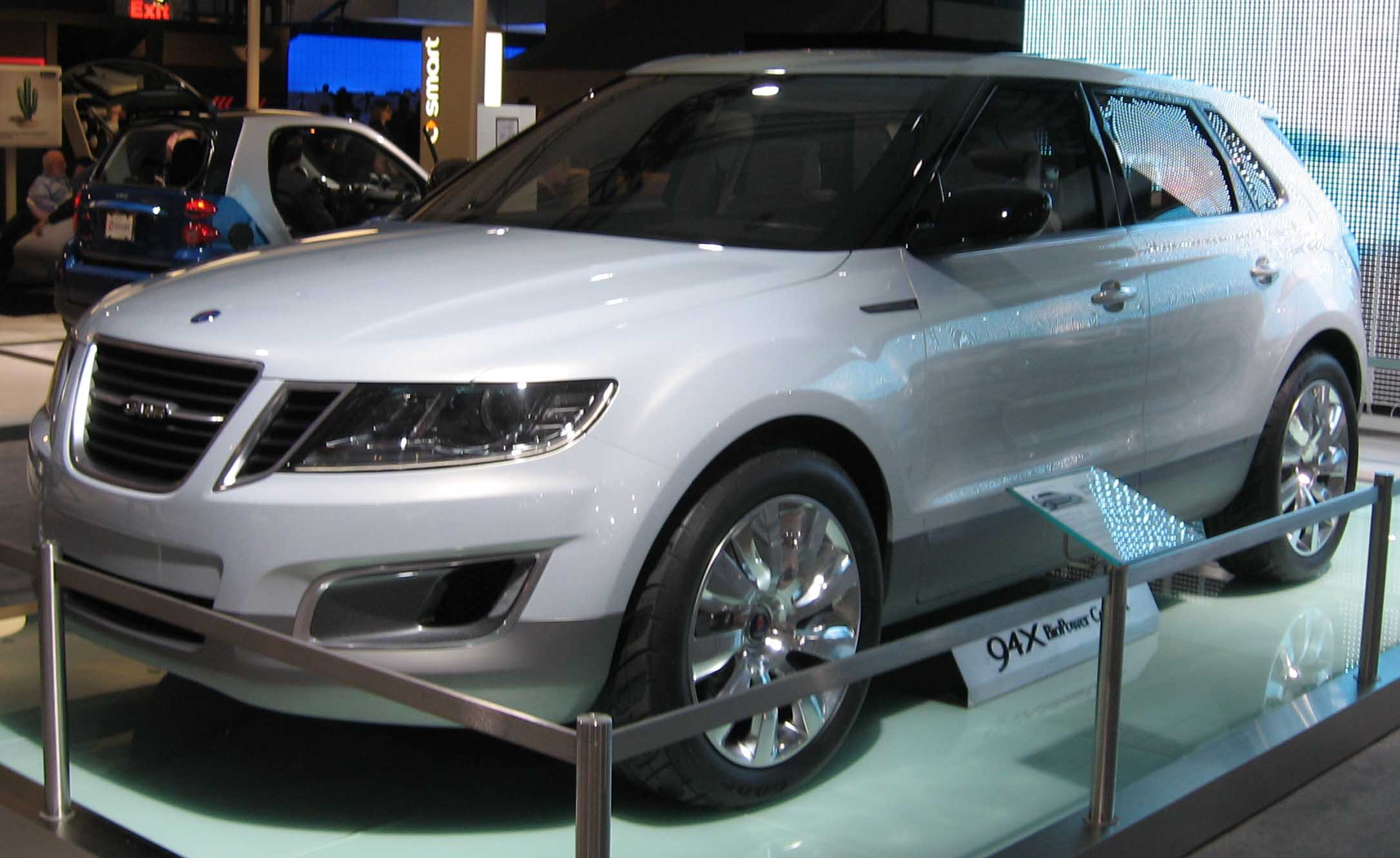 Saab 9-4X photographed at the 2008 New York Auto Show.